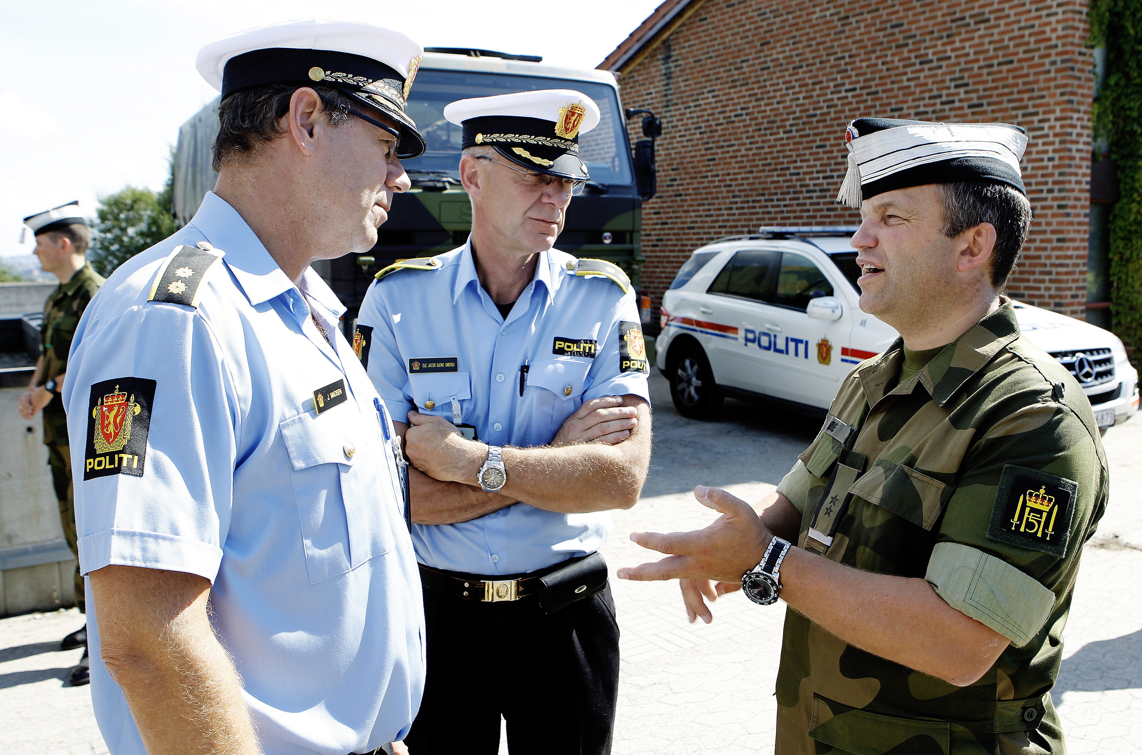 Garden er en del av hovedstadsforsvaret, og har et nært og godt samarbeid med Oslo politidistrikt. Her er oberstløytnant Ole Anders Øie, sjef for Hans Majestet Kongens Garde, i samtale med tjenestemenn fra politiet. Foto: Torbjørn Kjosvold, Forsvaret